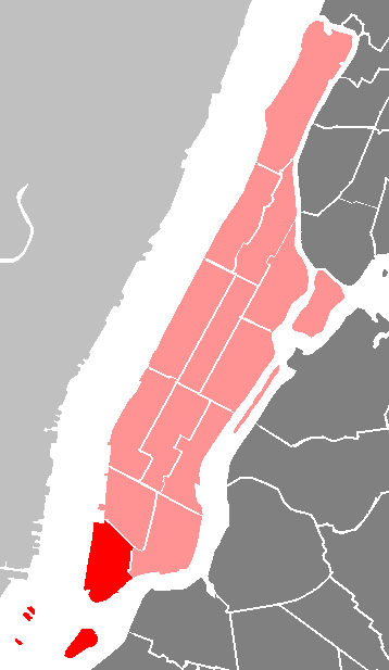 Manhattan Community Board 1 (New York City) in red